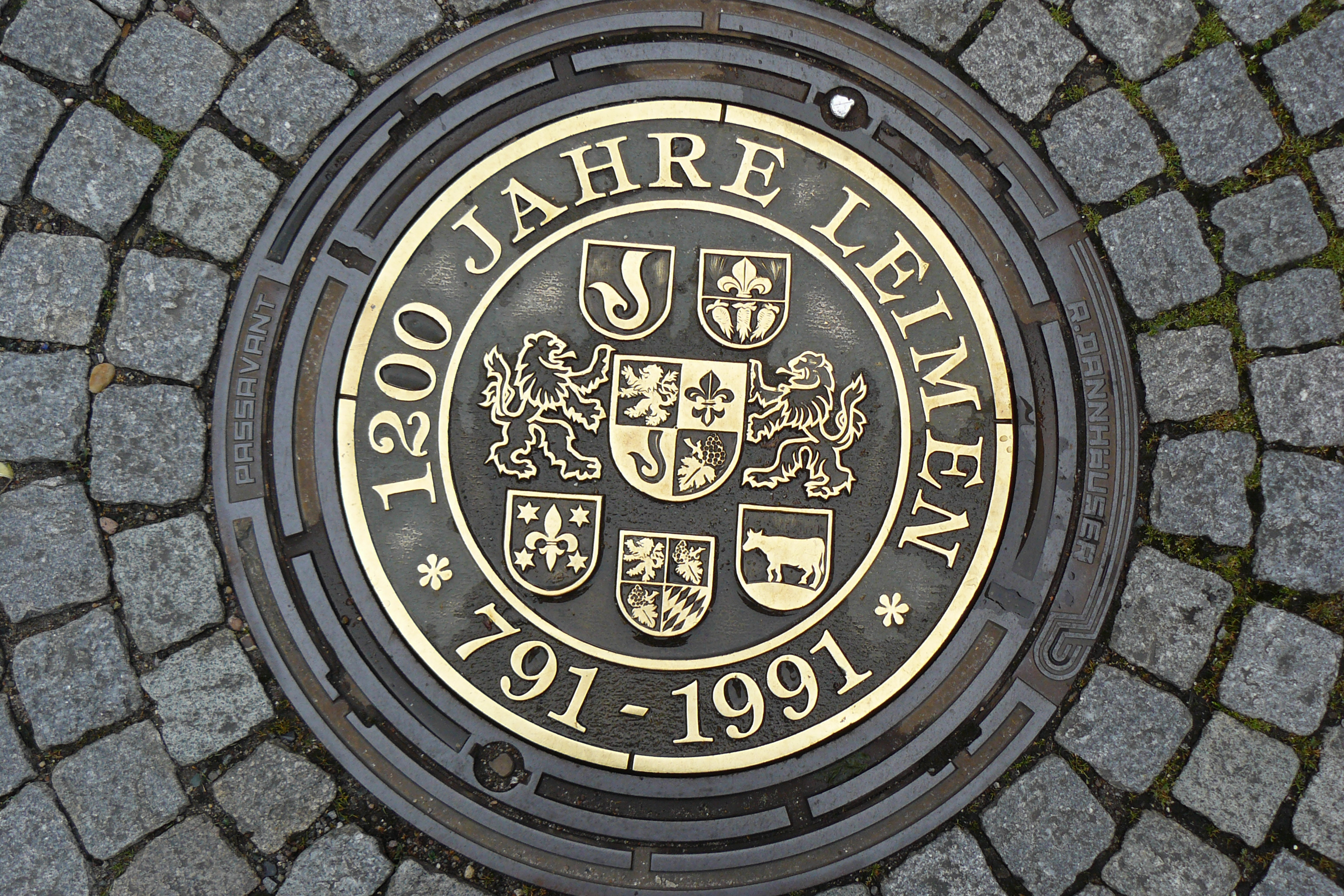 Manhole City of Leimen/ Germany 1200 Years Leimen 791 - 1991